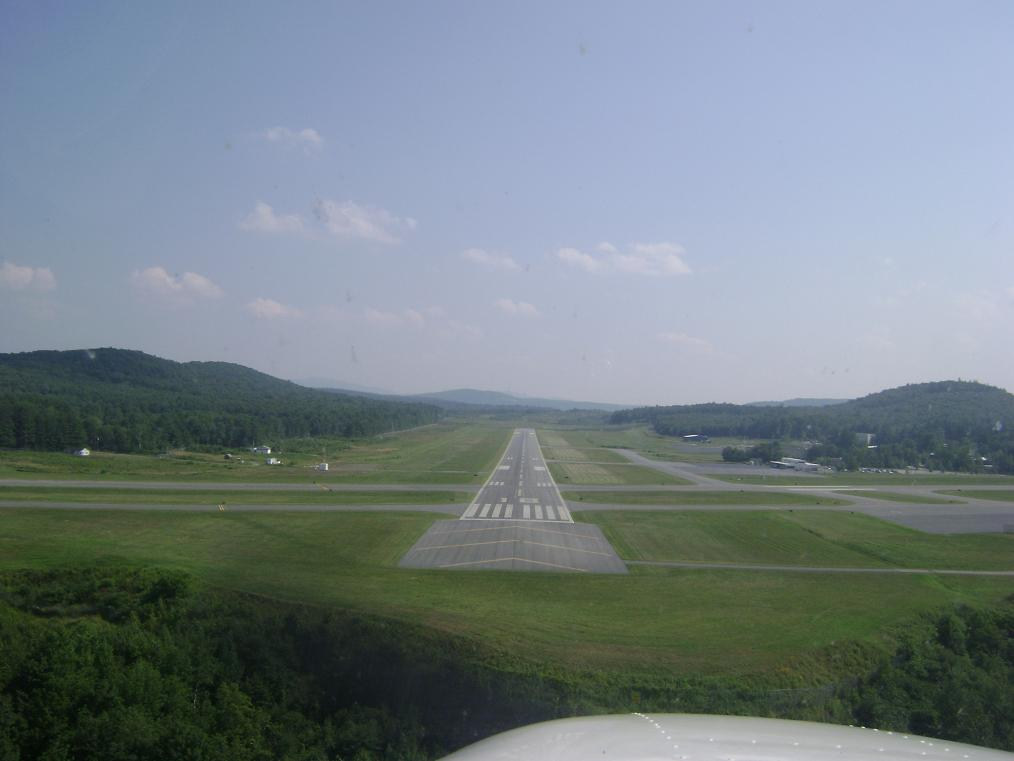 Approaching runway 18 at Lebanon Municipal Airport.